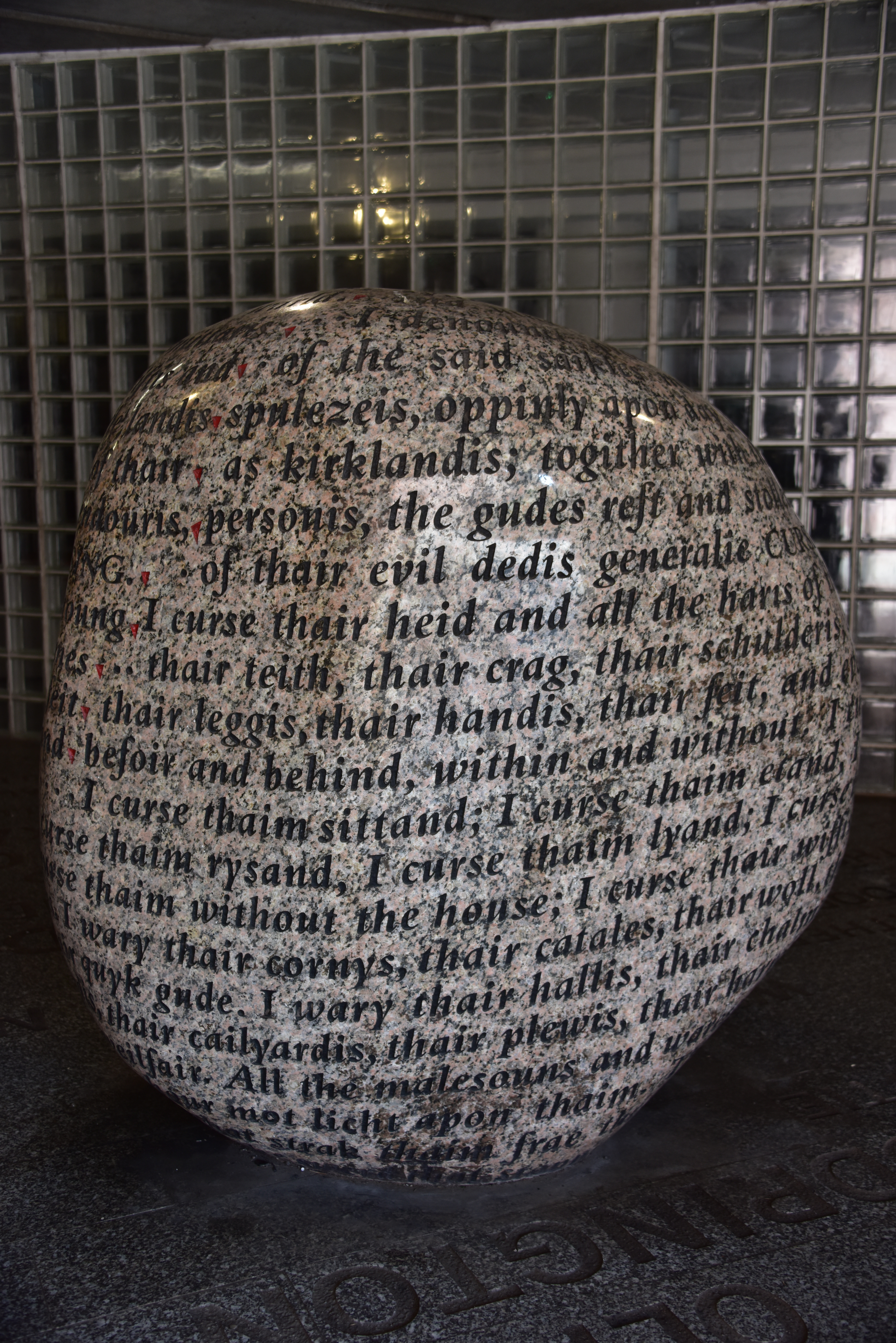 This stone, in an underpass near Carlisle Castle, contains the text of a curse put against the city by a Glaswegian bishop in 1525.